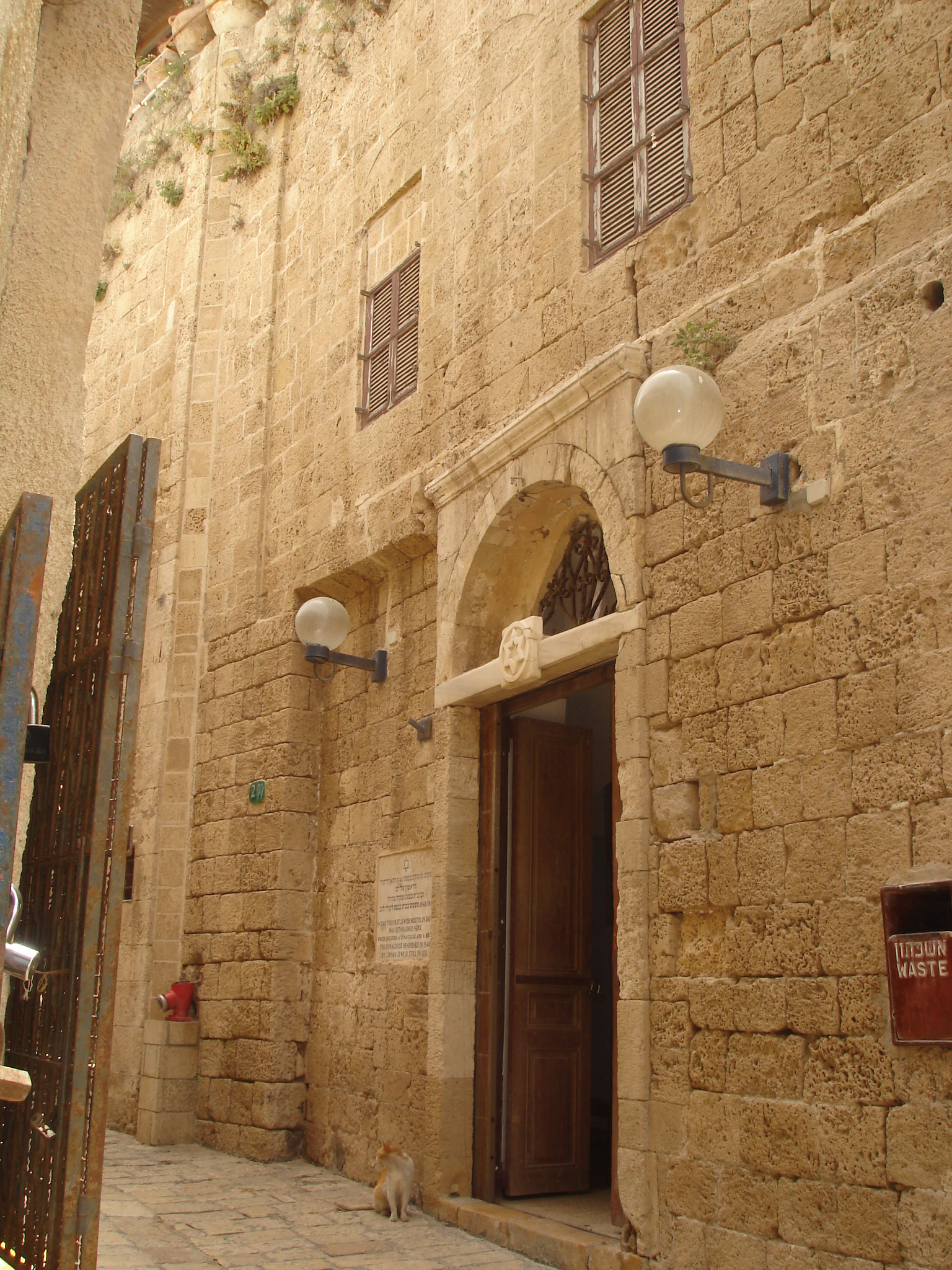 Libyan synagogue of Jaffa (The outside)